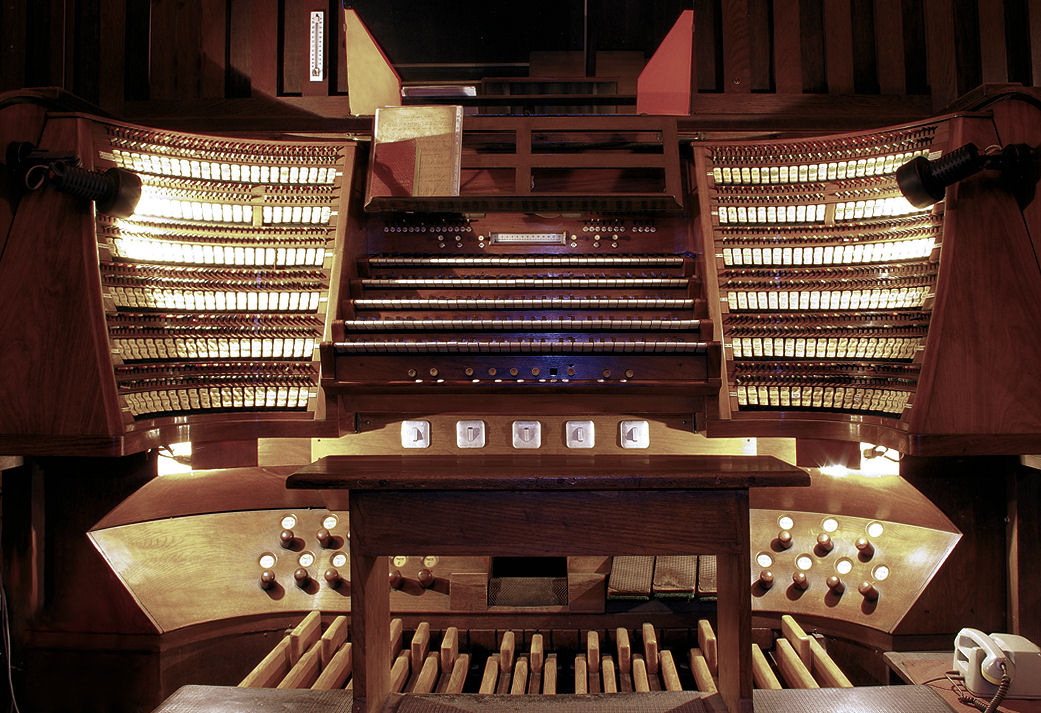 Poland, Wroclaw-Breslau, Roman Catholic Cathedral, Organ Console